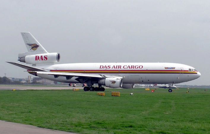 DAS Air Cargo DC-10-30 (5X-JCR) waiting for permission to take off at Gatwick Airport, England.